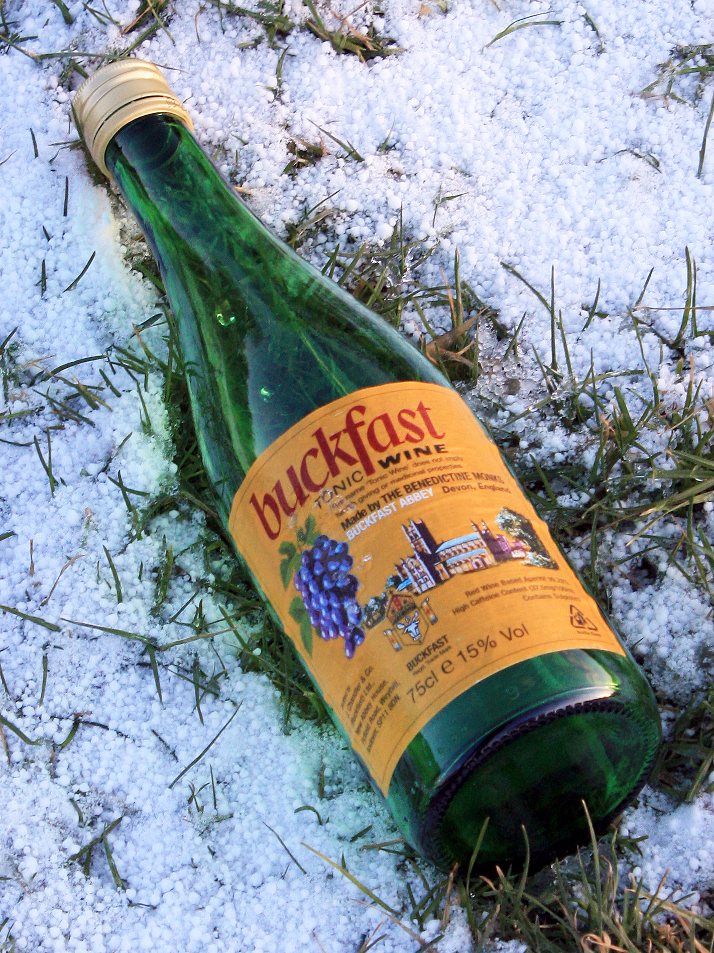 Buckfast bottle, at the Carrigs River, at the Slidderyford (Twelve Arches) Bridge, near Newcastle, County Down, Northern Ireland, January 2010